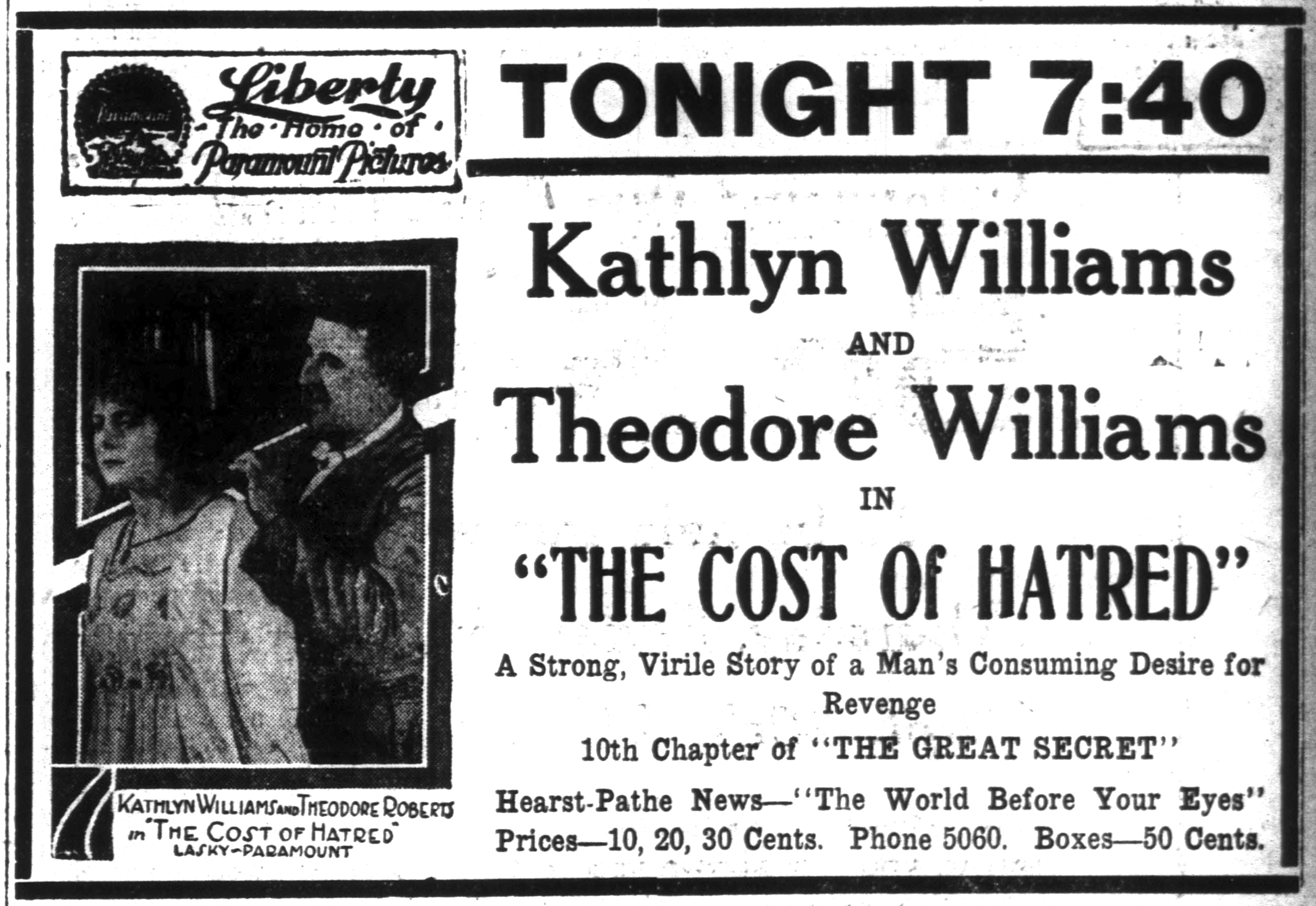 The Cost of Hatred is a 1917 American drama silent film directed by George Melford and written by Beulah Marie Dix. This is a newspaper advert for the film. The ad mistakenly lists Theodore Roberts as Theodore Williams.